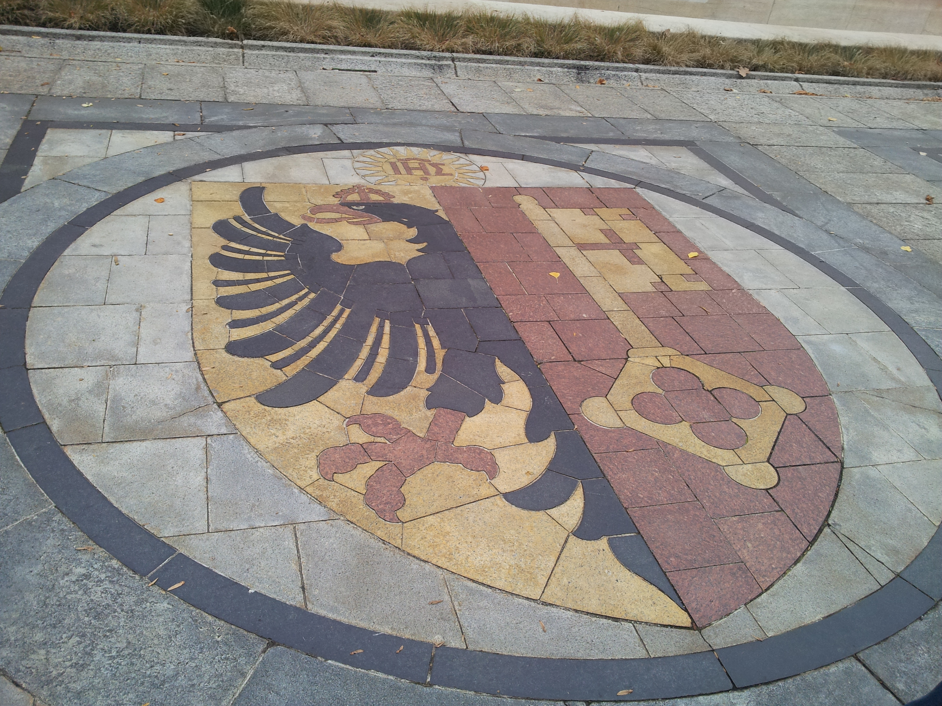 Coat of arms of Geneva Template:KO